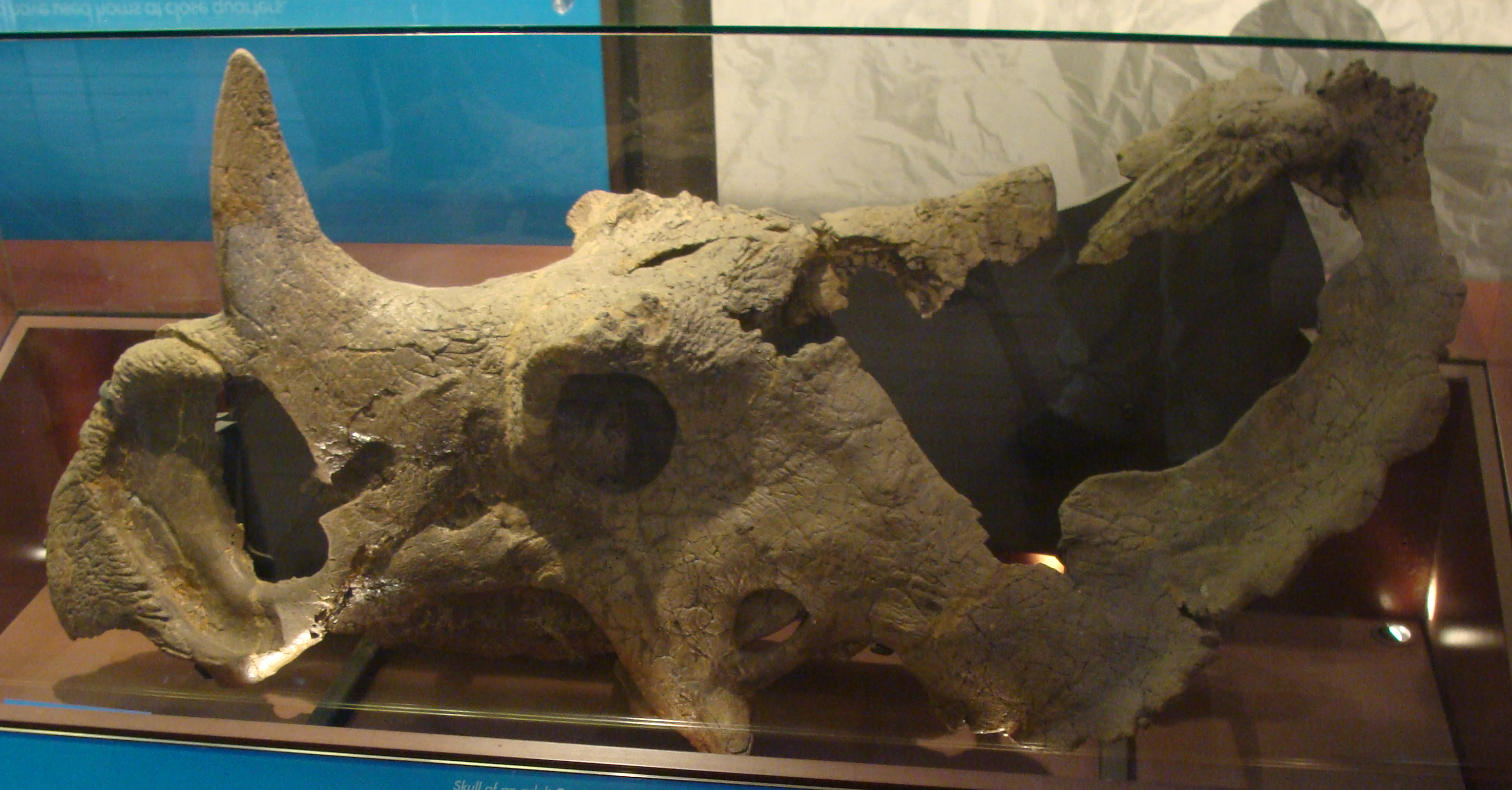 Centrosaurus NMC 1173 in the Natural History Museum of London